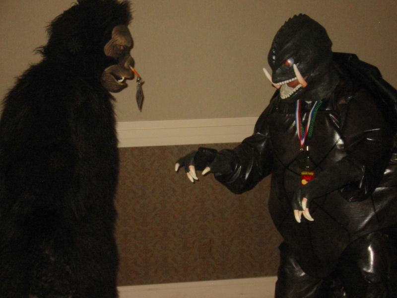 impromptu monster battle between Gamera and King Kong